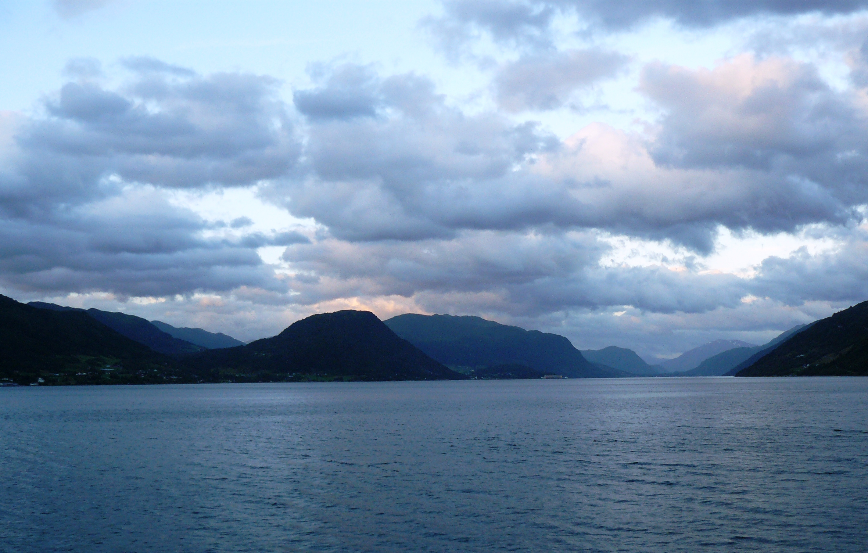 Eidsfjord, a Nordfjord fjordarm viewed from the western opening.jpg